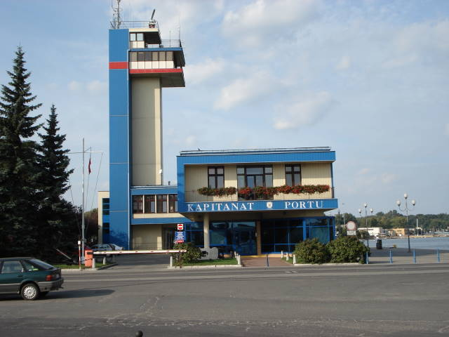 The building of Port Authority in Gdynia